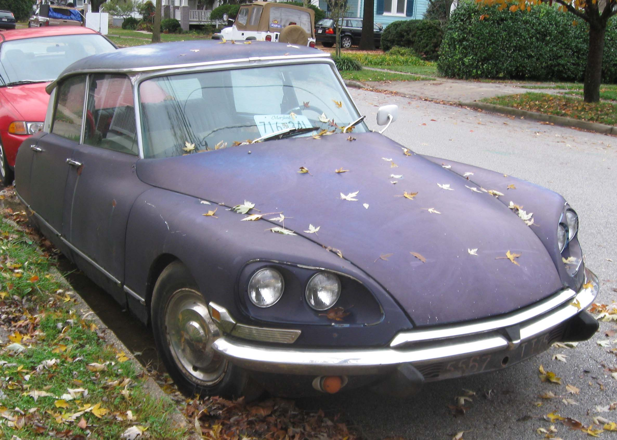 Citroen DS21 photographed in Laurel, Maryland, USA.